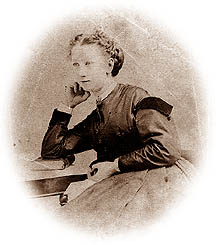 Photo of Frances Brundage c1870